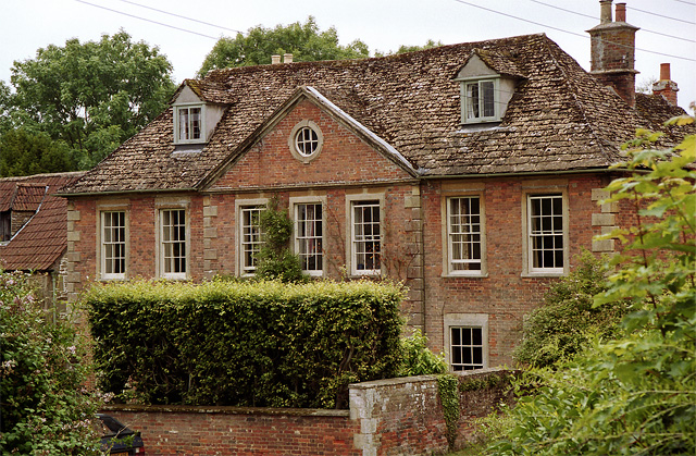 Seven bays in two storeys, with a three-bay pediment containing a round window, quoins and a pair of dormers. Early Georgian. Grade II* listed. The location of the house within the village can be seen on this map. This house was used as the place Professor Horace Slughorn was hiding in in the village of Budleigh Babberton at the time of his meeting with Albus Dumbledore and Harry Potter.